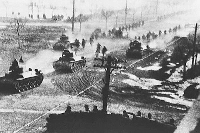 The People's Liberation Army entering the city of Shenyang at the end of the Liaoshen Campaign.